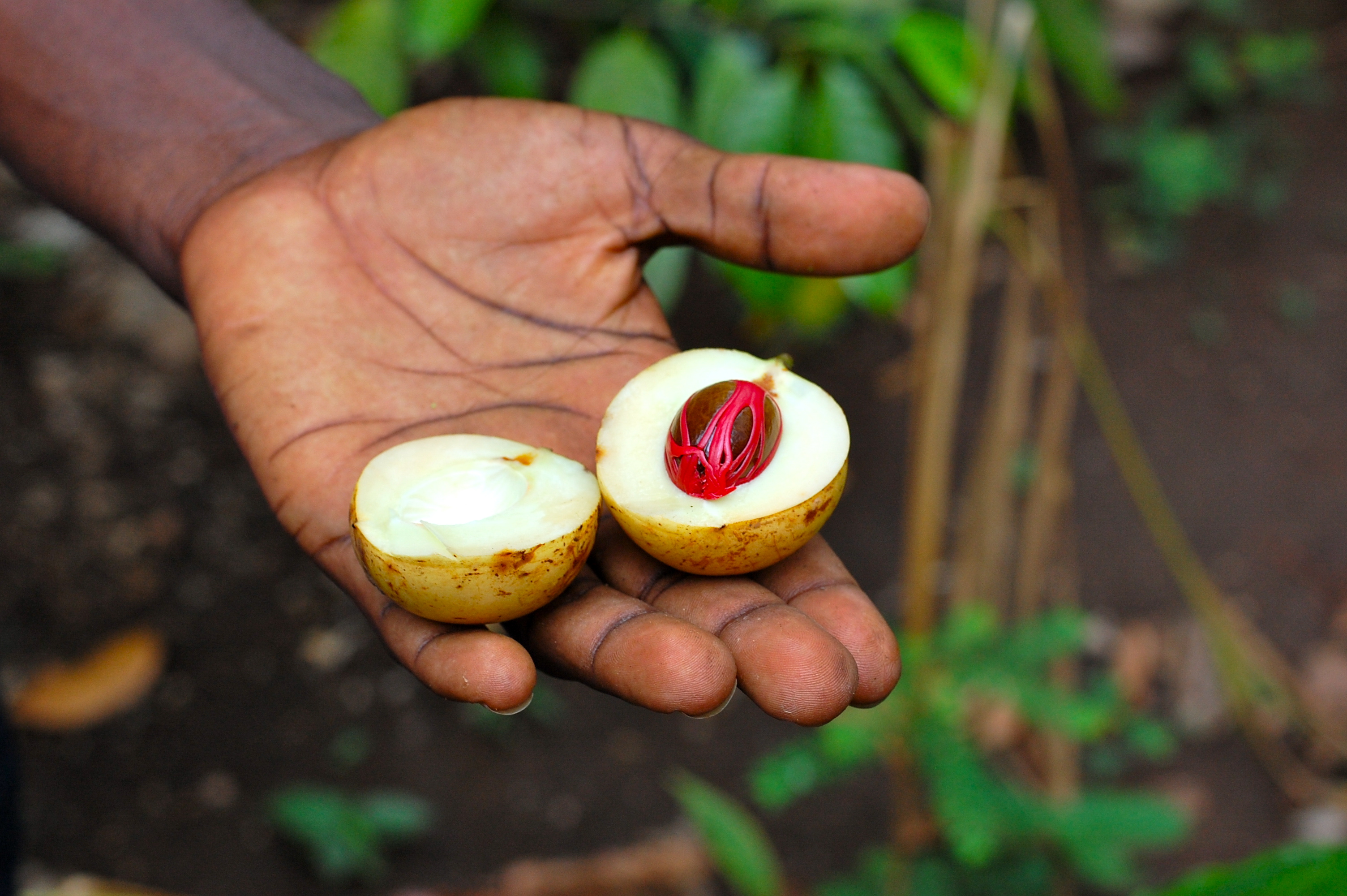 Fresh nutmeg in Zanzibar (Tanzania) in a spice farm This is an image of food from Tanzania